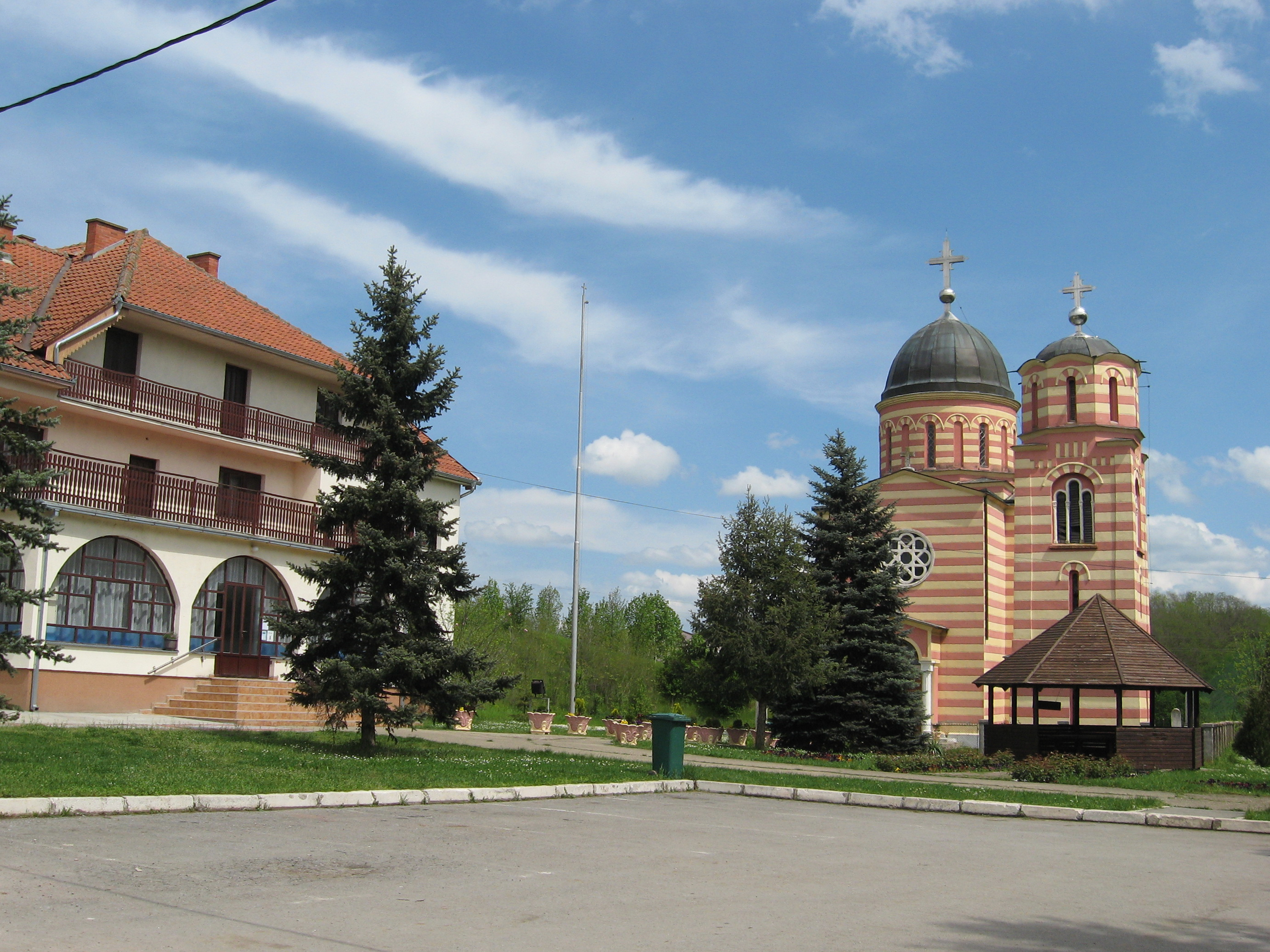 Monastery Grabovac Serbia